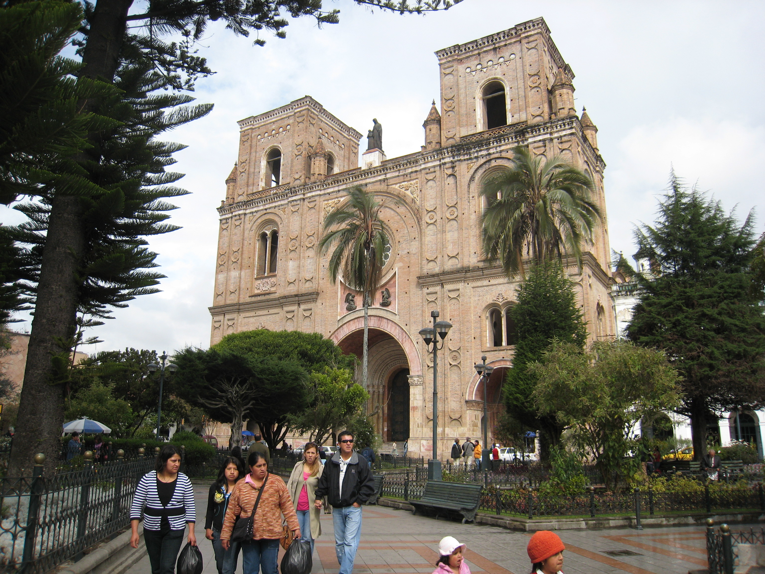 Cathedral of Cuenca, Ecuador